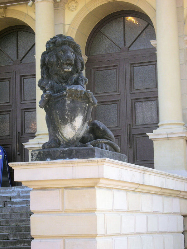 Seamen's Palace of Culture in Kaliningrad.